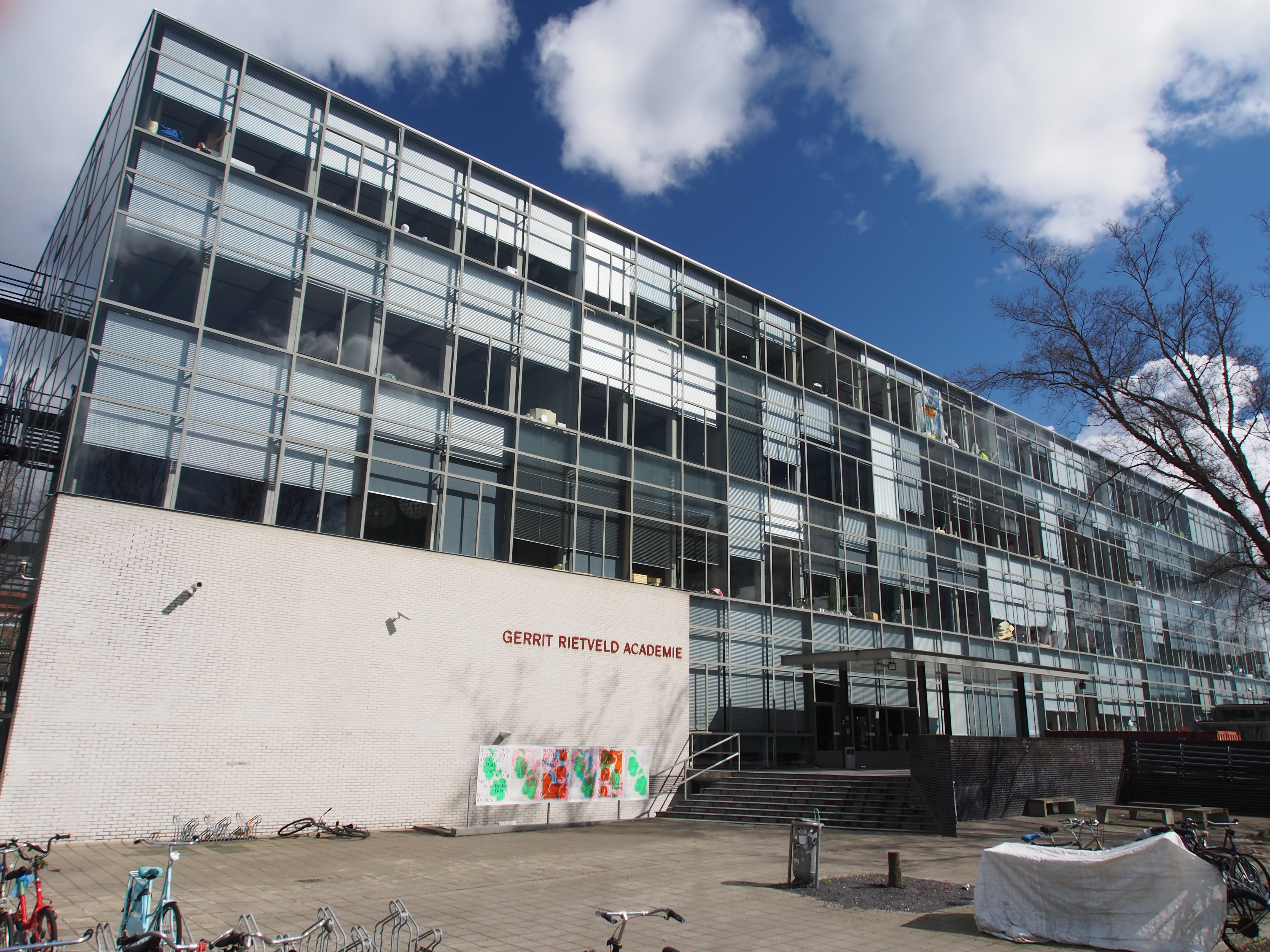 Frederik Roeskestraat, Amsterdam.